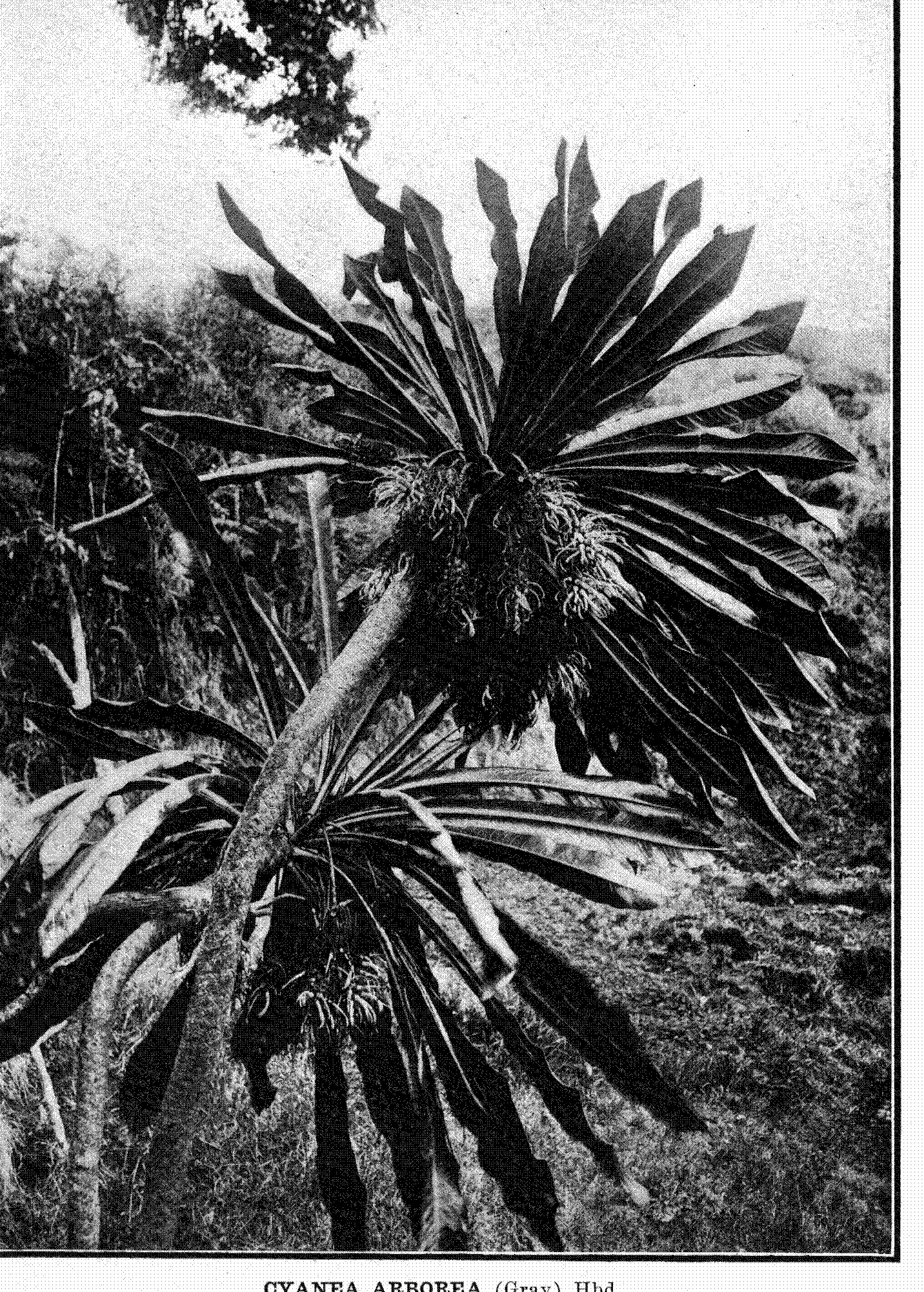 Title: The indigenous trees of the Hawaiian Islands Identifier: Year: 1913 (1910s) Authors: Rock, Joseph Francis Charles, 1884-1962 Subjects: Trees Publisher: Honolulu, T. H. Text Appearing Before Image: ' Text Appearing After Image: CYANEA A»BOEEA Front view. Growing in a siiml) gnilth at; I'I; '^r'aiii: dcviition